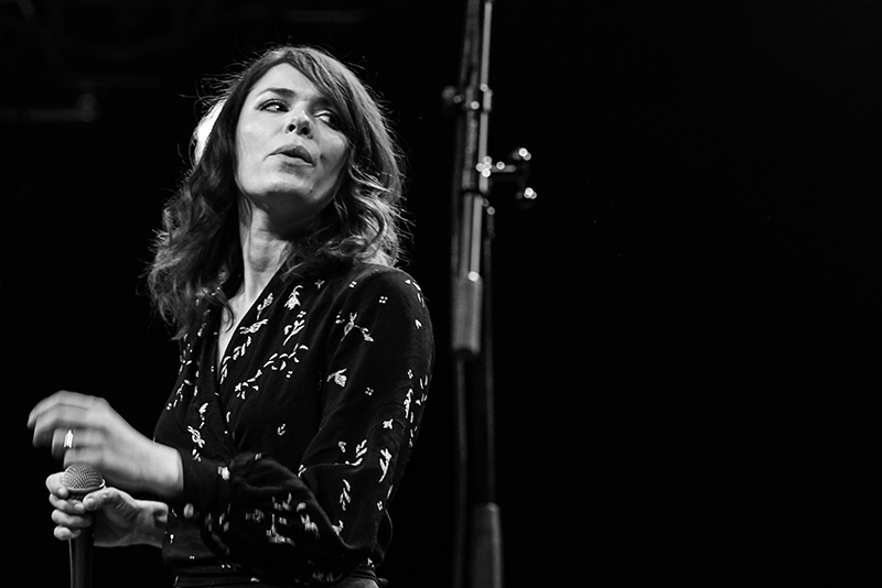 Kira Skov in Aarhus 2018 peforming the Music of Nicolai Munch-Hansen